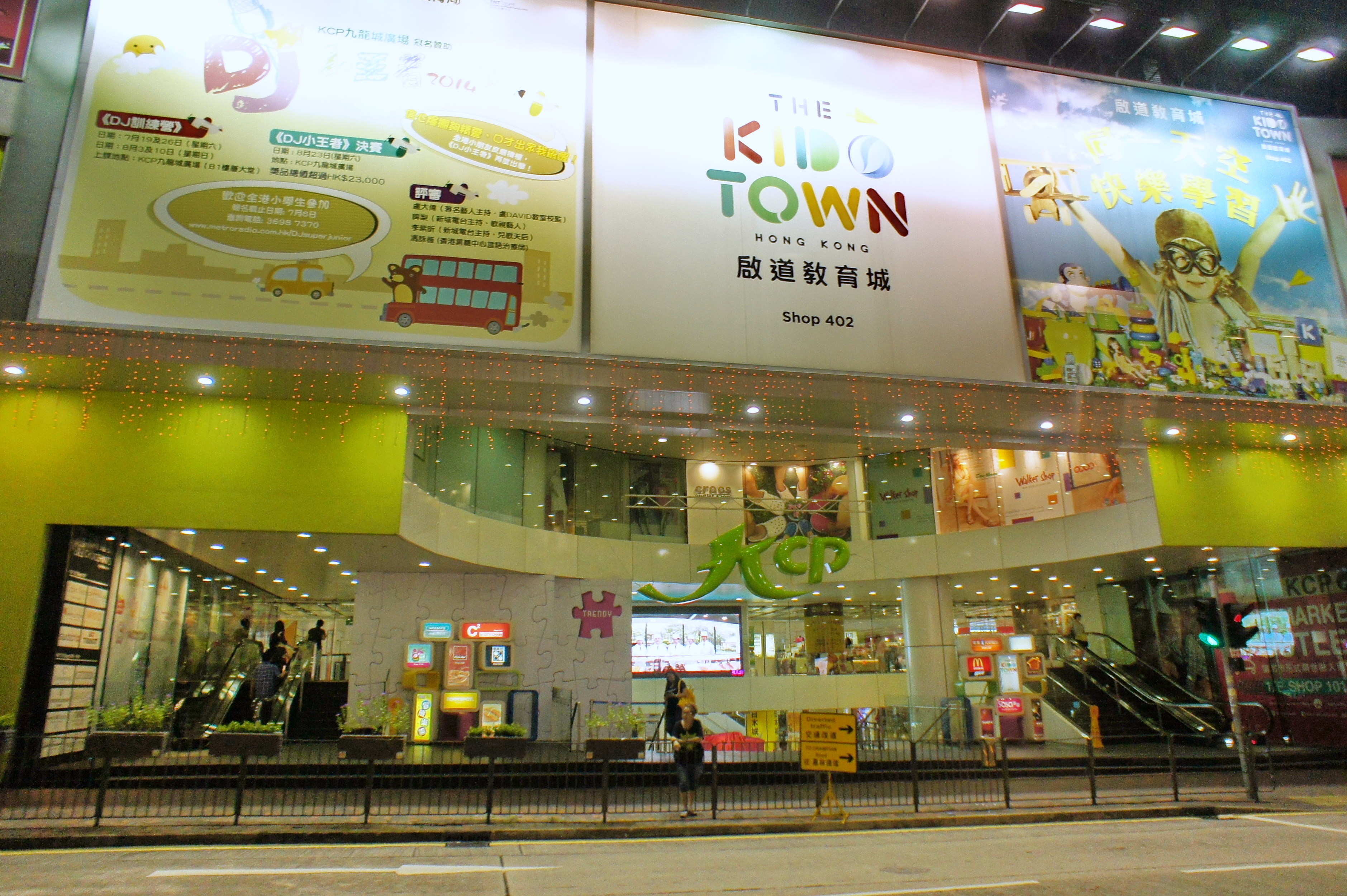 Kowloon City Plaza, Kowloon, Hong Kong.